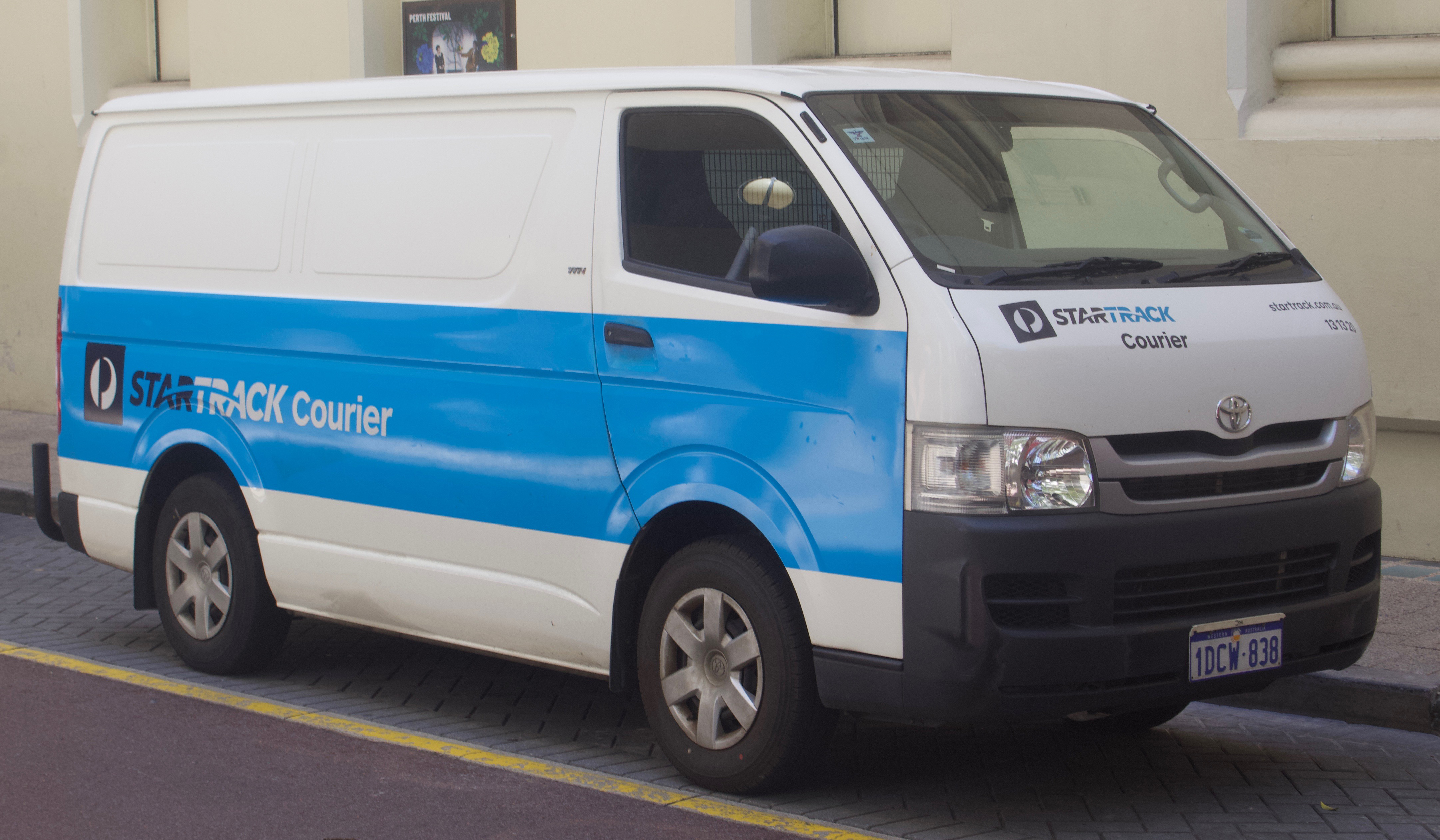 2005-2010 Toyota HiAce (KDH200R) LWB van, Australia Post StarTrack Courier. Photographed in Perth, Western Australia, Australia.